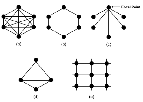 Swarm Typologies